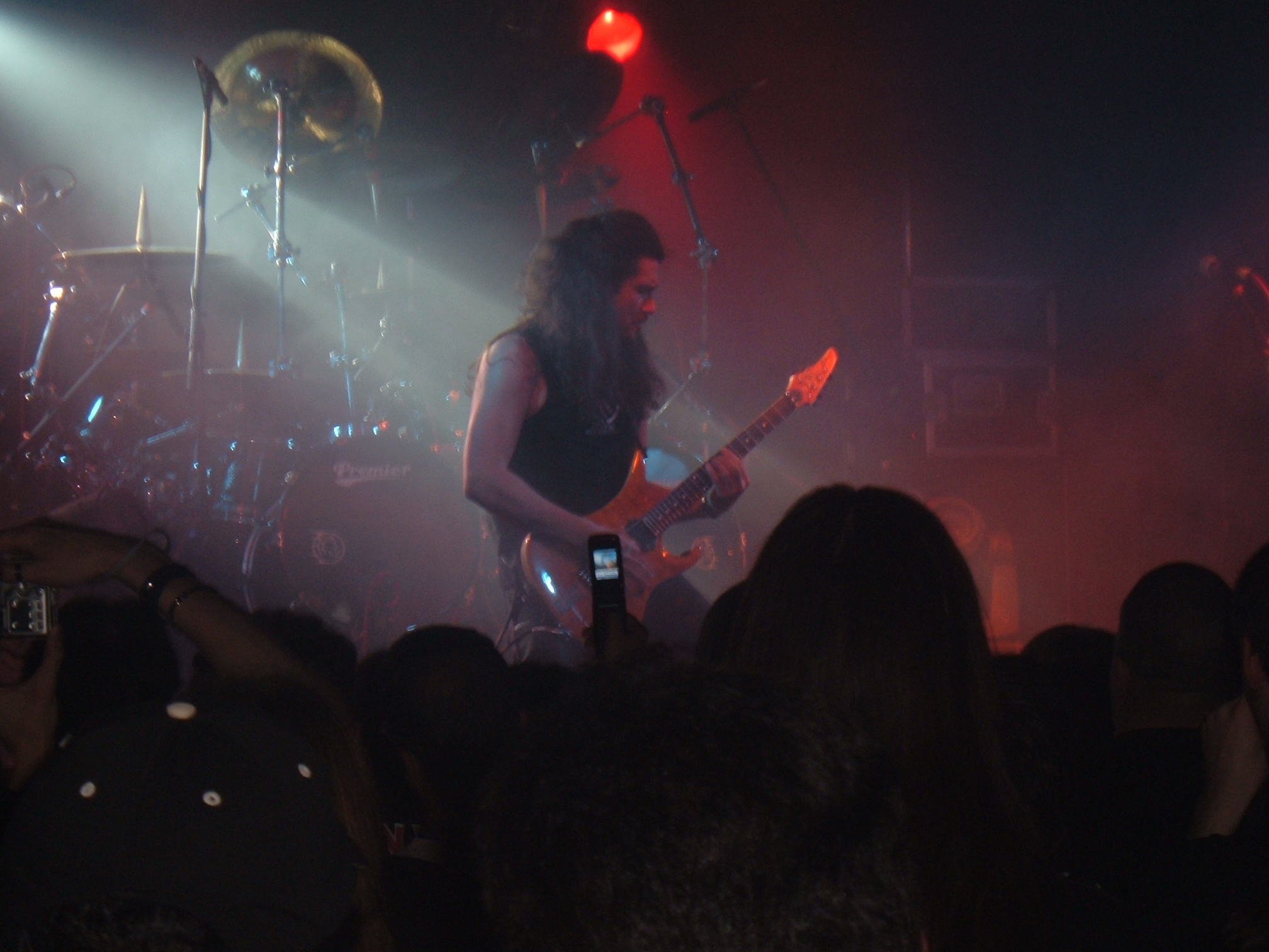 Picture taken by myself with my camera. Live in Milan, Italy (at the Rainbow). 13 April 2006. Members: Peter Wagner - vocals, bass Victor Smolski - guitar, Keyboard Mike Terrana - drums